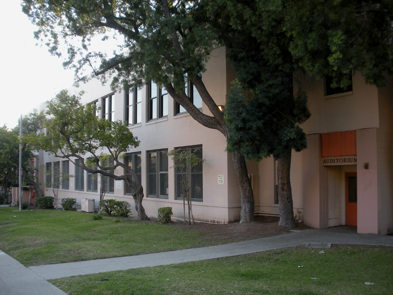 Micheltorena Street School, LAUSD, Los Angeles CA